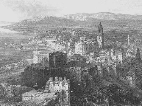 malaga en 1836